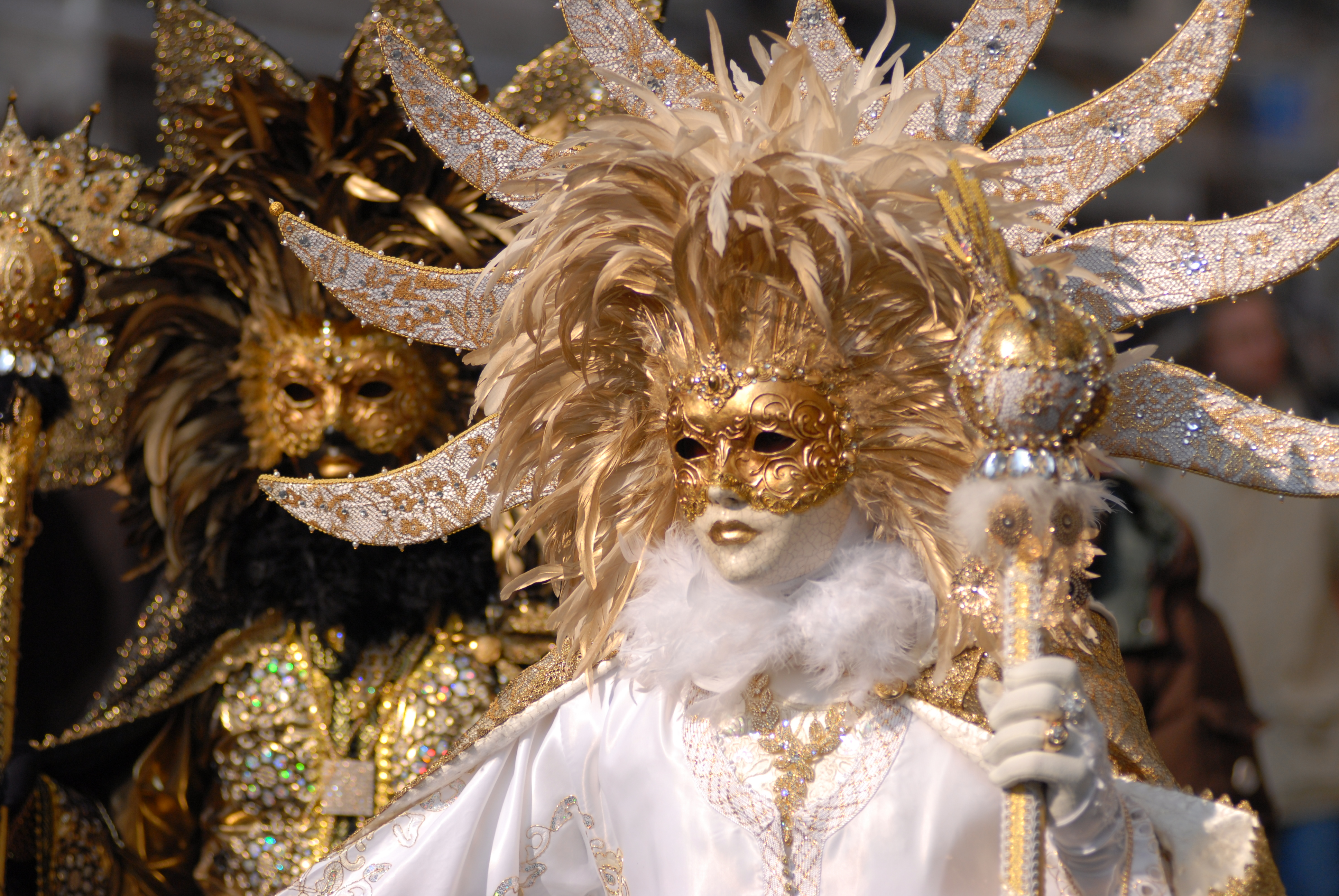 Photo by Edward N. Johnson